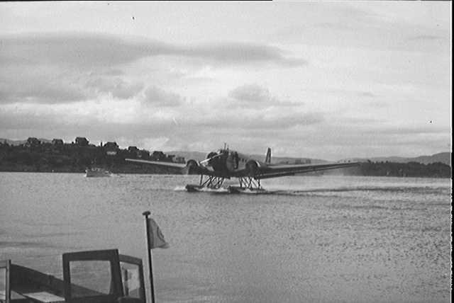 A Det Norske Luftfartsselskap Junker Ju 52 LN-DAI seaplane landing at Gressholmen Airport in Oslo, Norway.